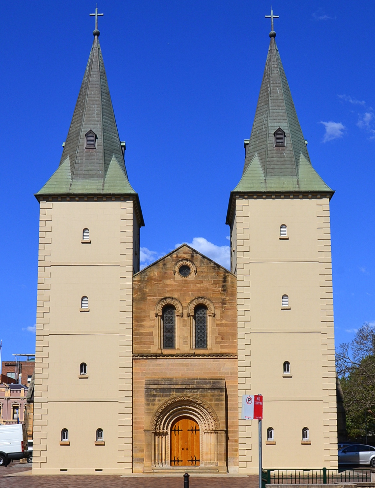 St Johns, Parramatta, Sydney